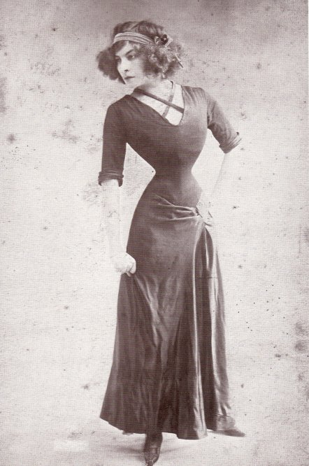 Polaire, French actress.